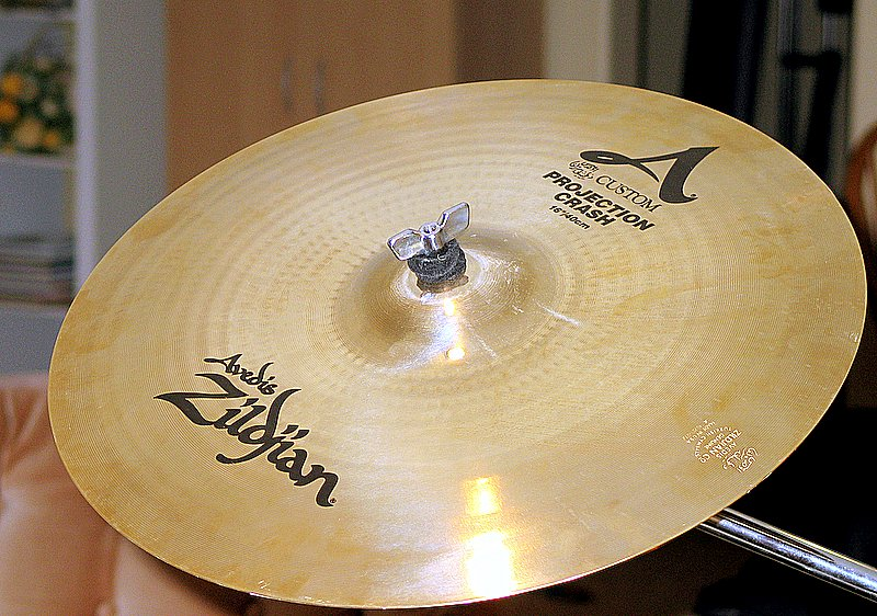 Zildjian A custom 16' Projection Crash. Picture by Michael Herdes.